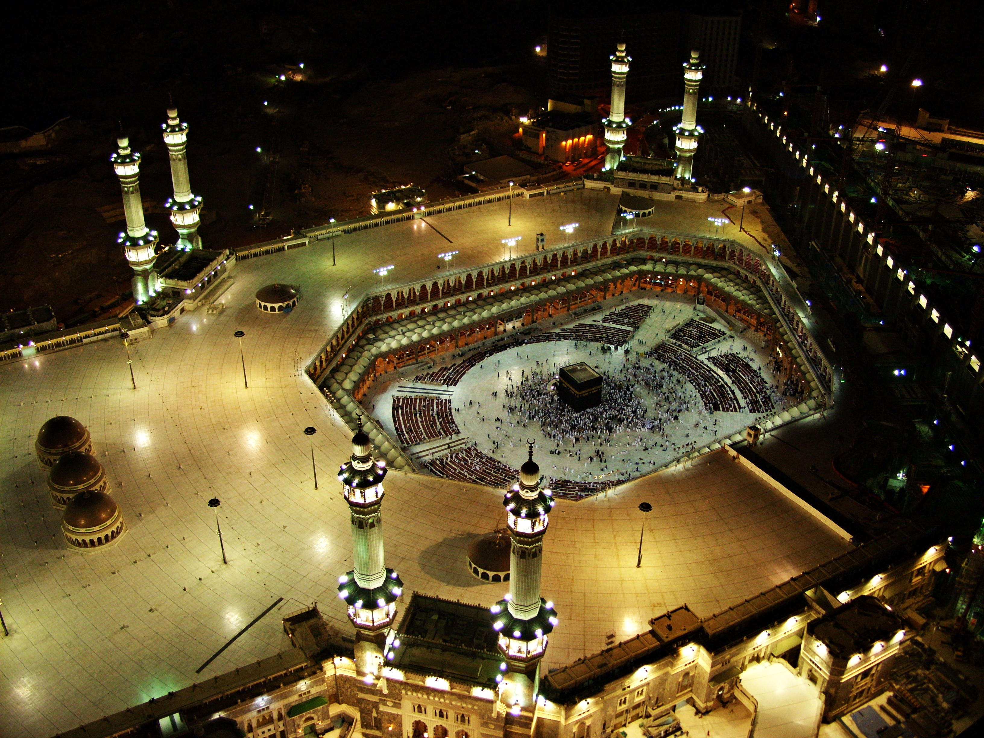 Mecca, Saudi Arabia. Holiest site in Islam.